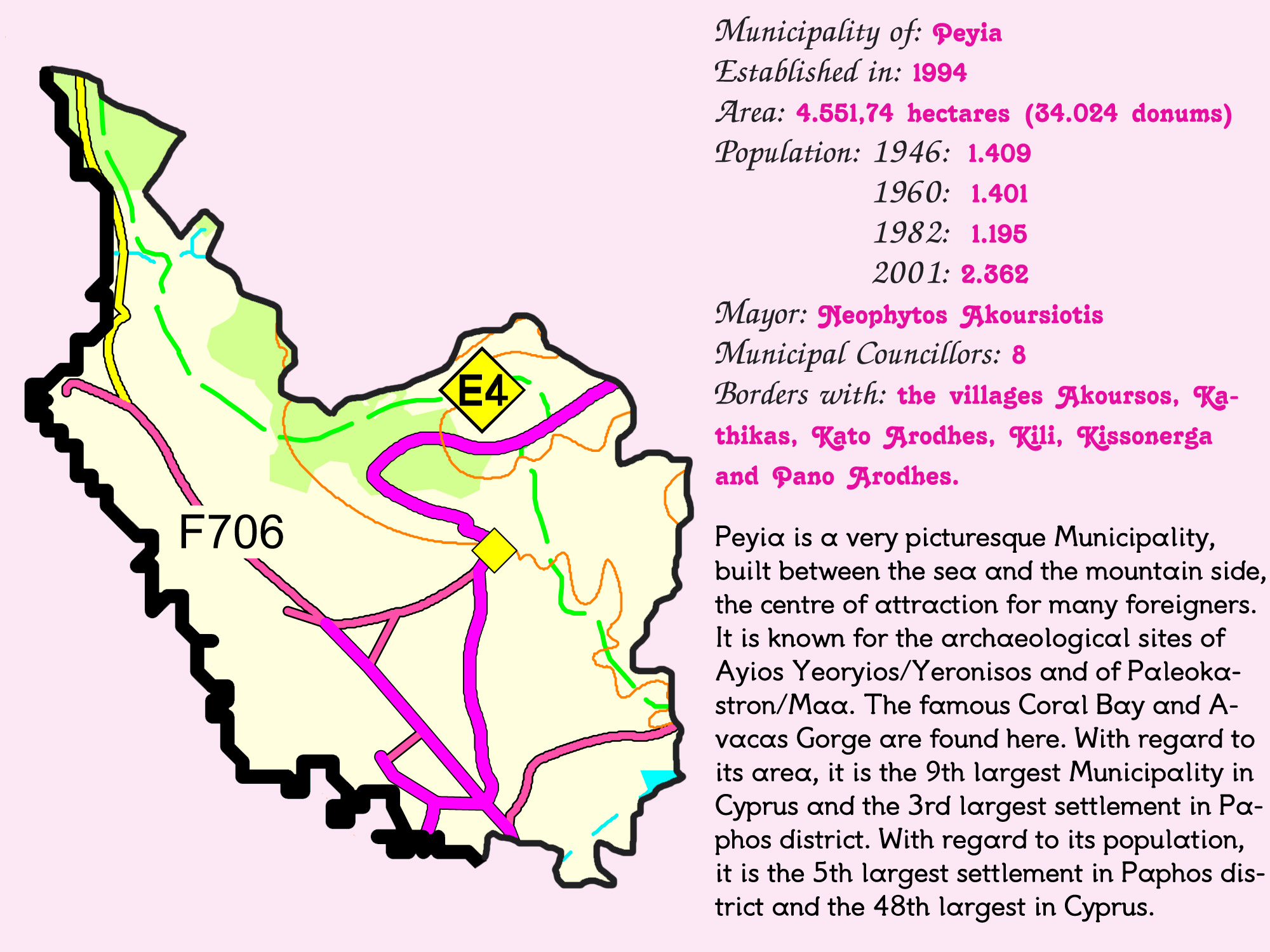 Concise presentation of Peyia